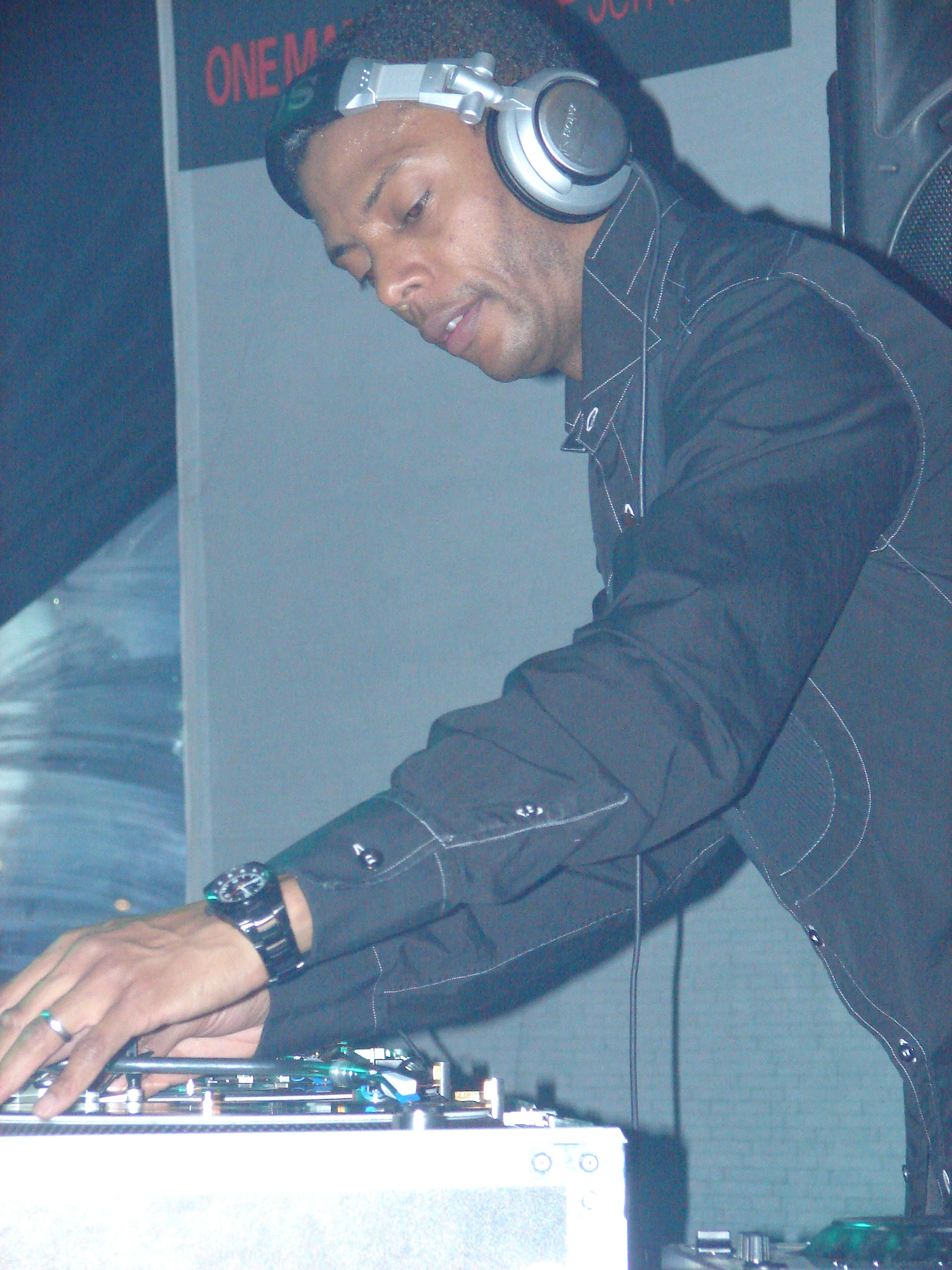 Jeff Mills